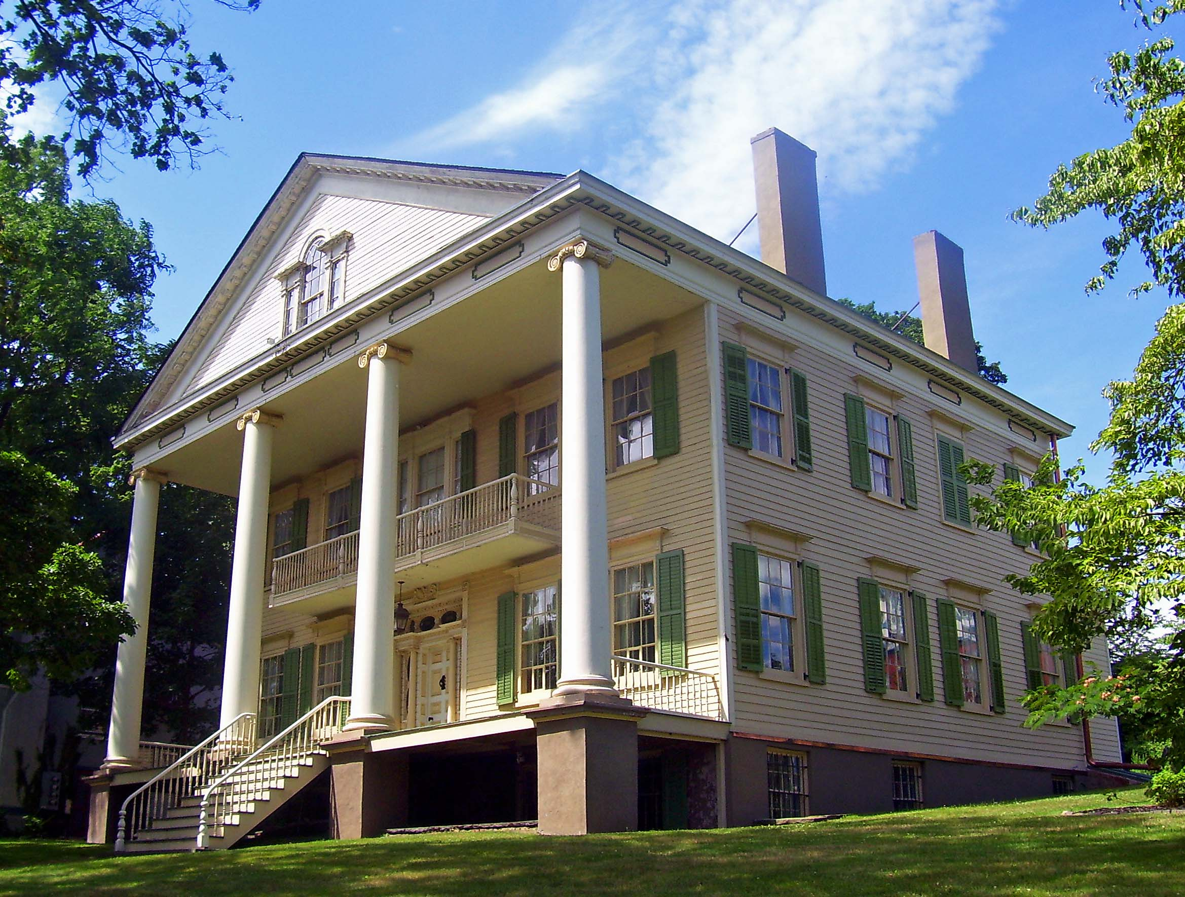 David Crawford House in Newburgh, NY, USA